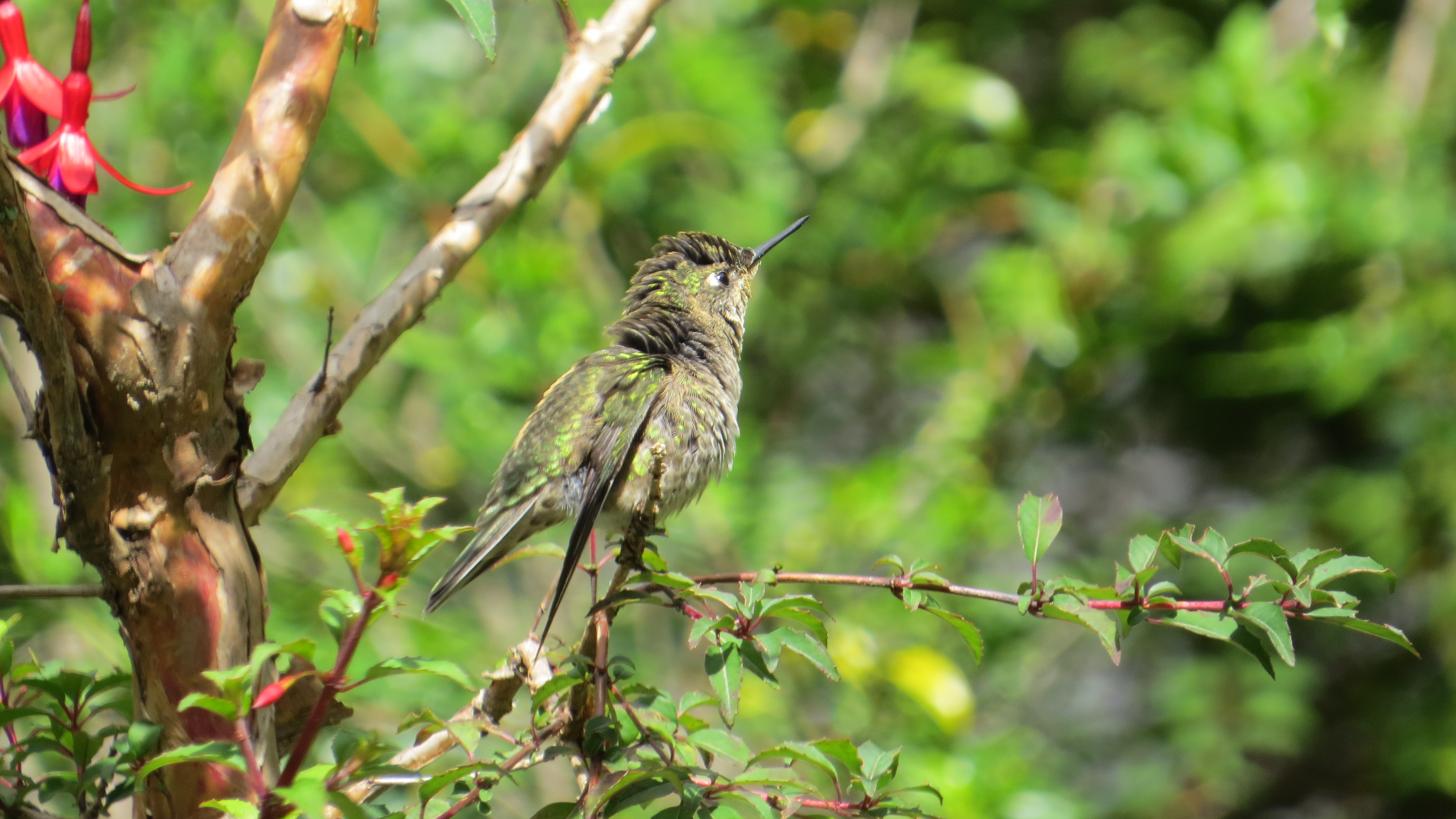 Colibri, Parque Pumalin, Chile